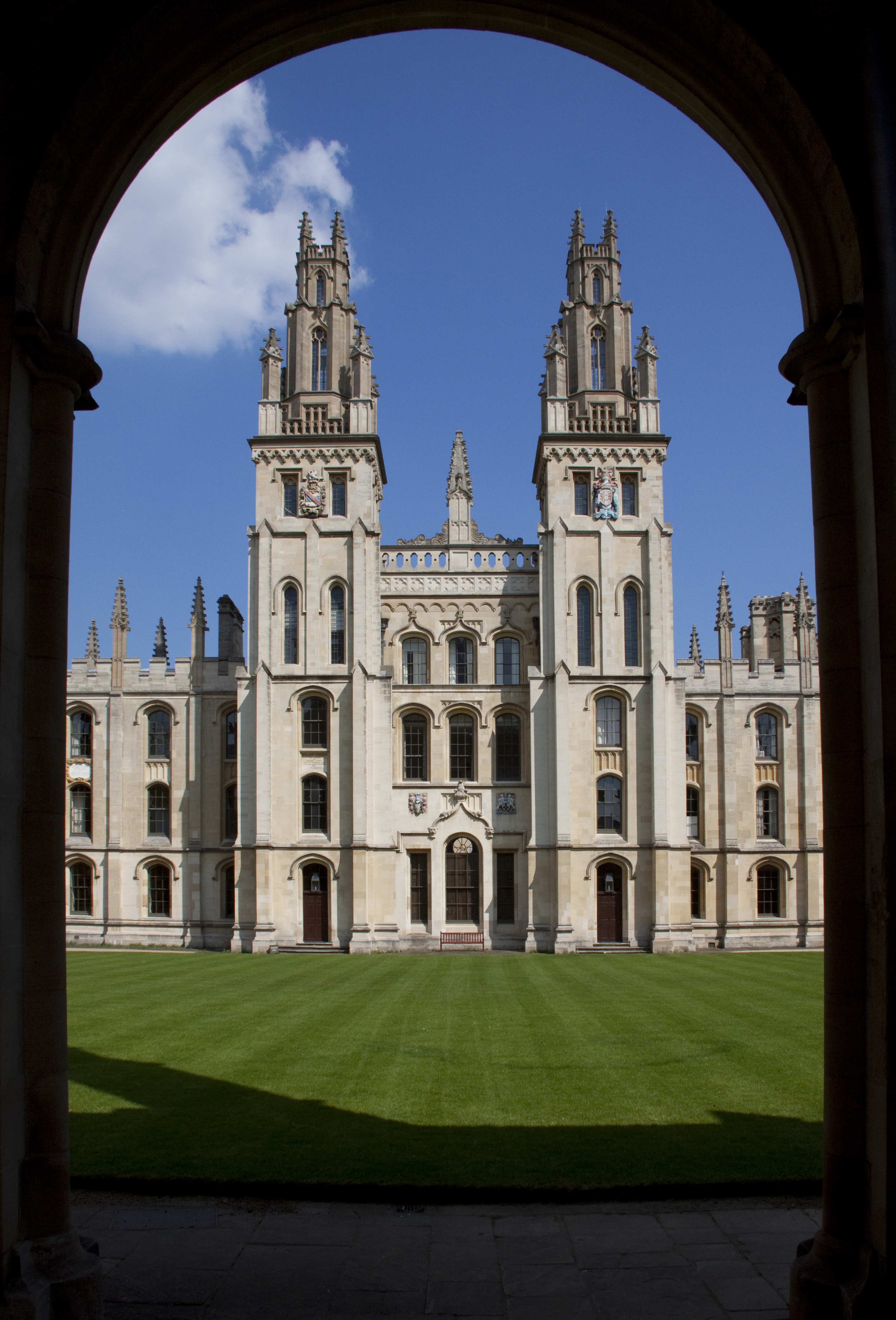 All Souls College Oxford